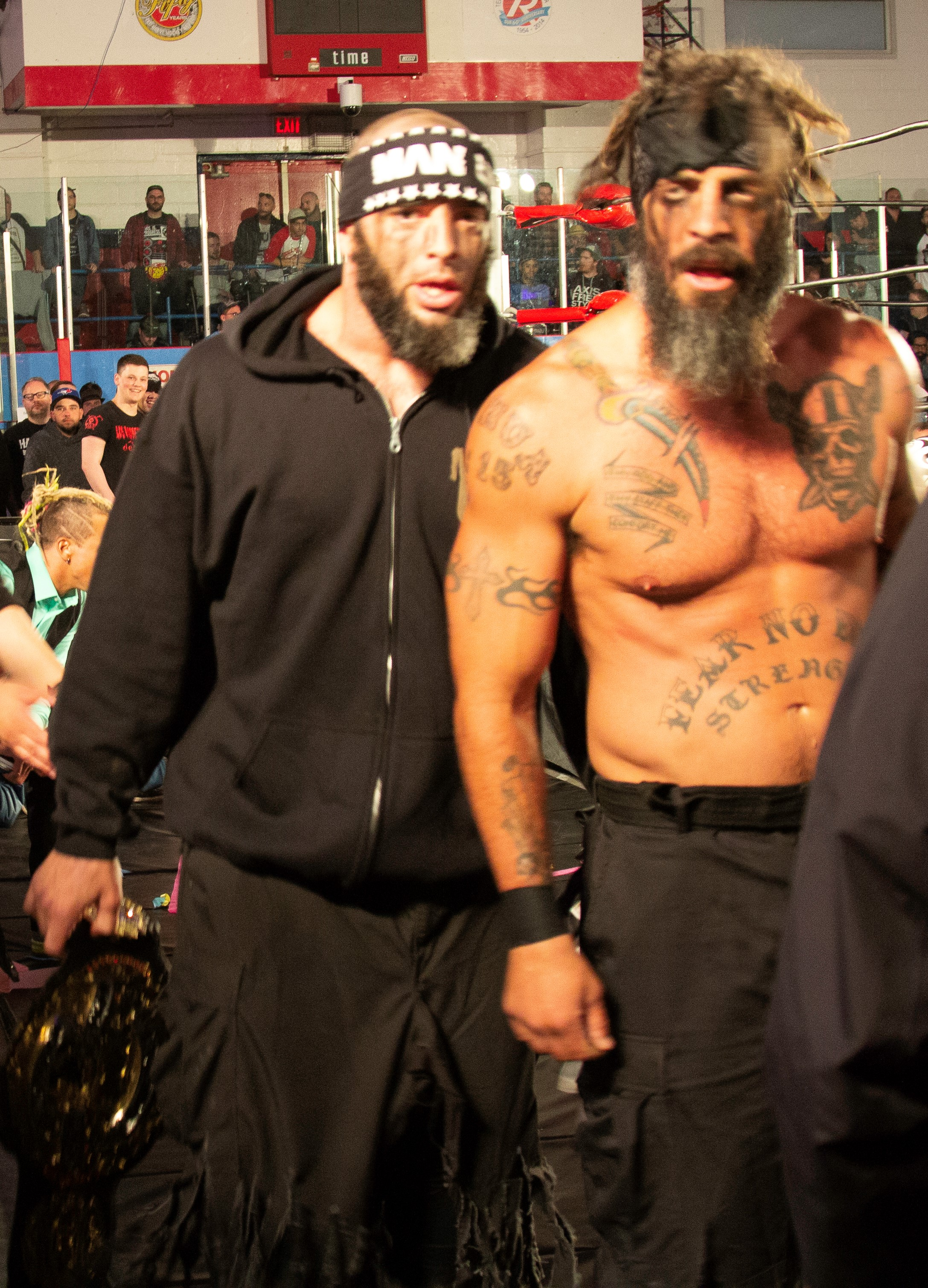 The Briscoe Brothers at ROHxNJPW Global Wars 2018 in May 2018.